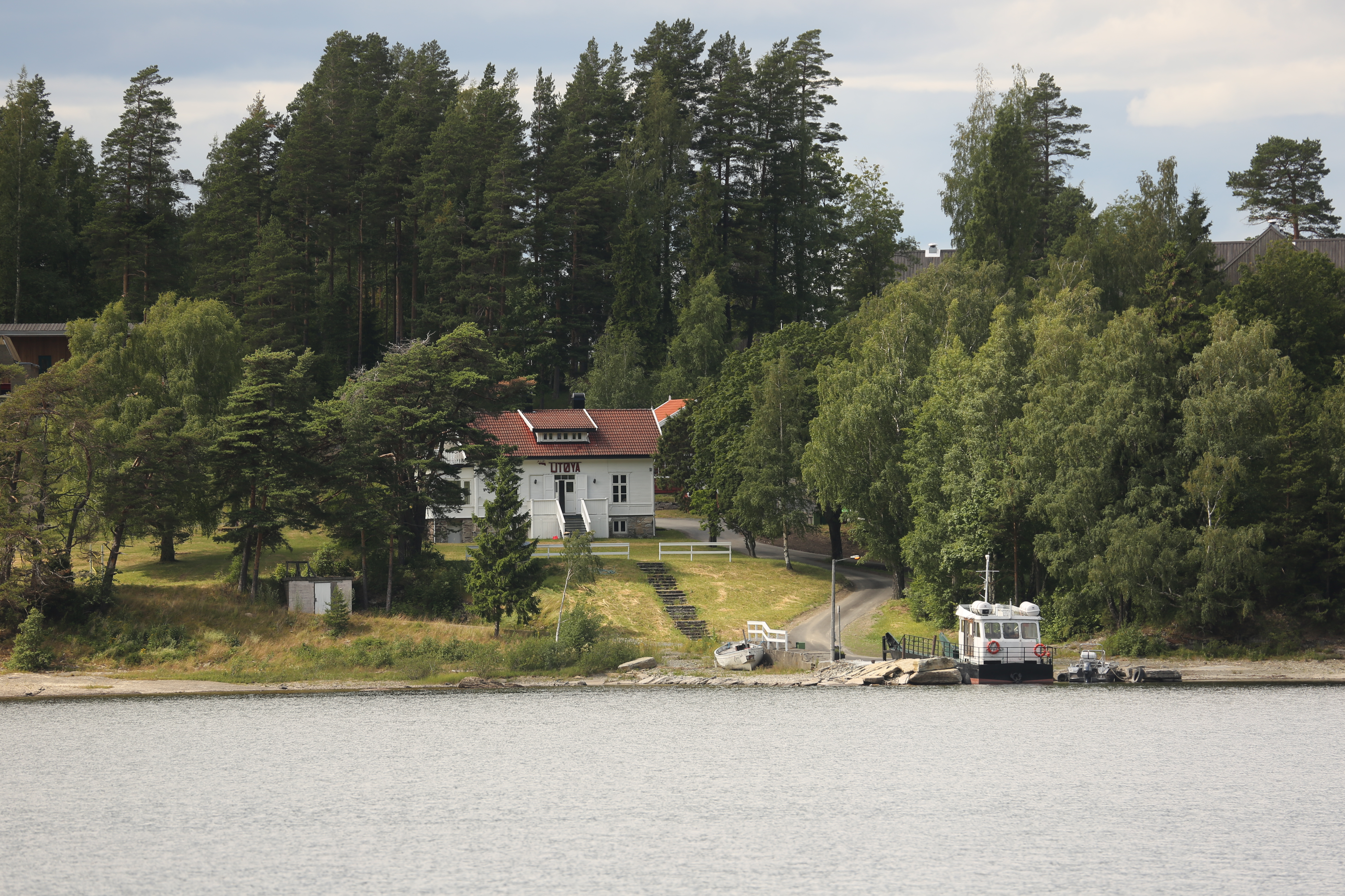 Utøya in Tyrifjorden in Norway seen from Utøykaia